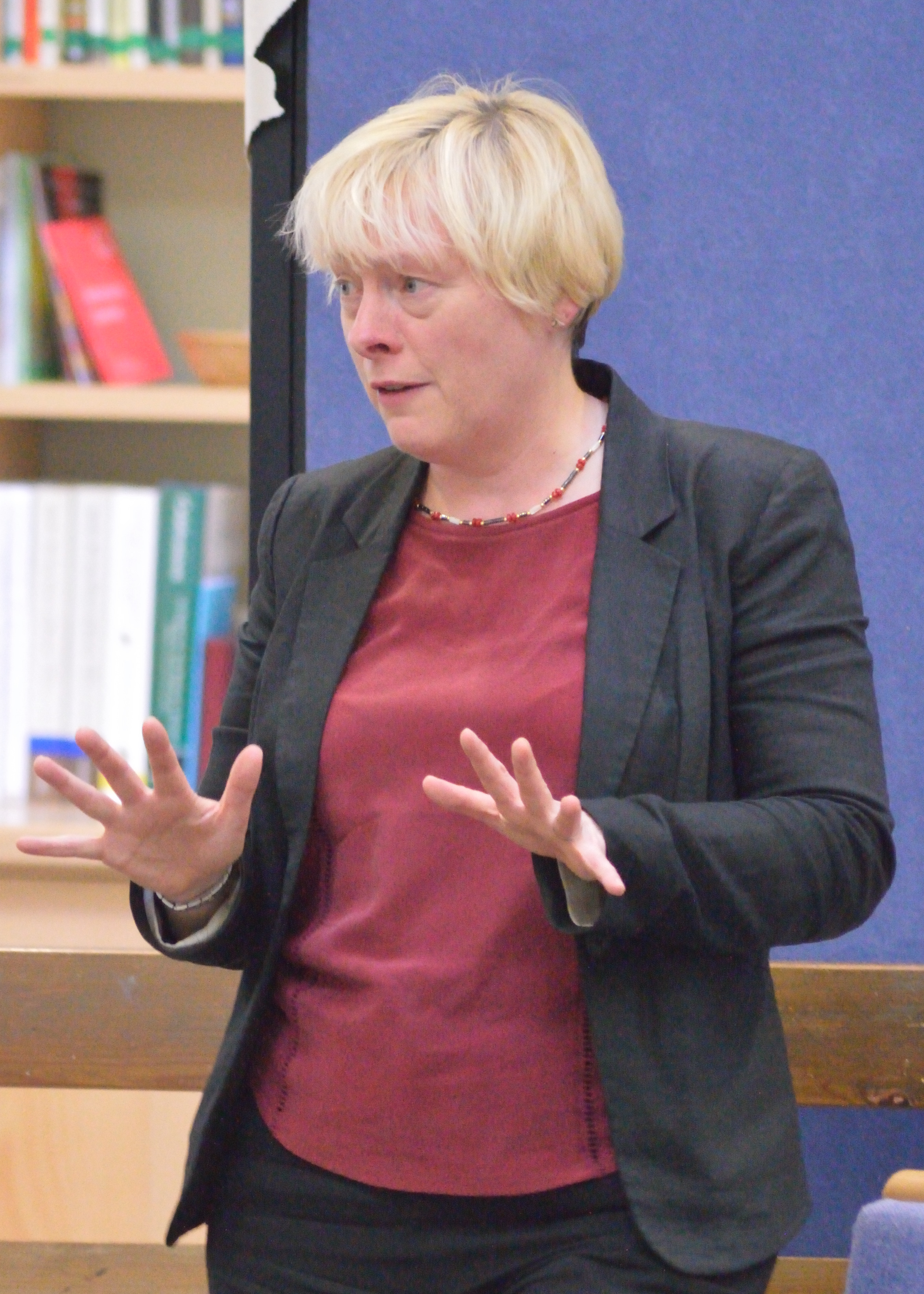 Angela Eagle, speaking in 2015 at a deputy leadership election meeting in Bath, at the Friends' Meeting House.